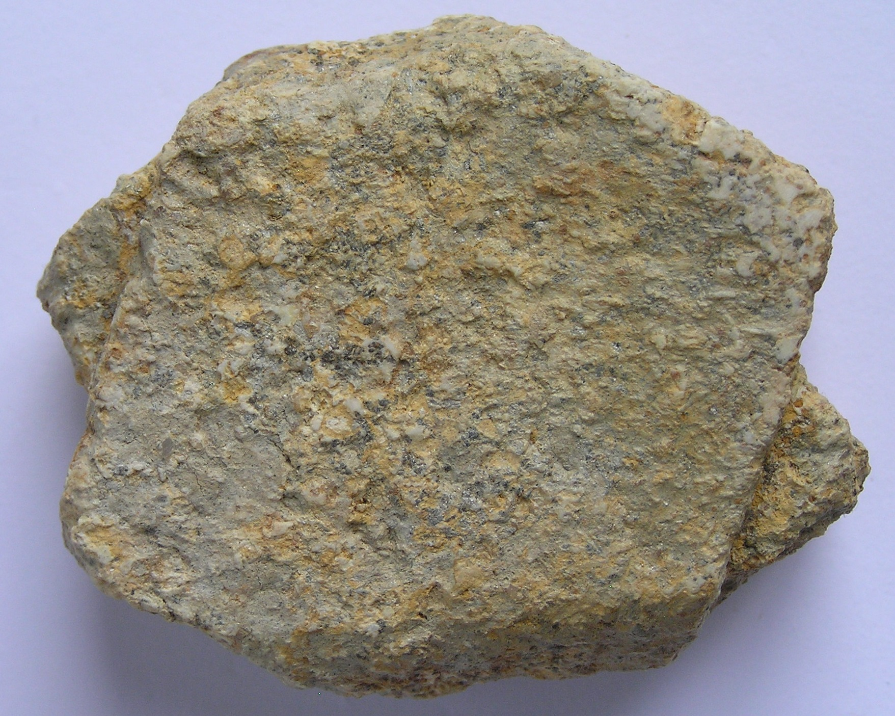 Karlsbader Zwilling